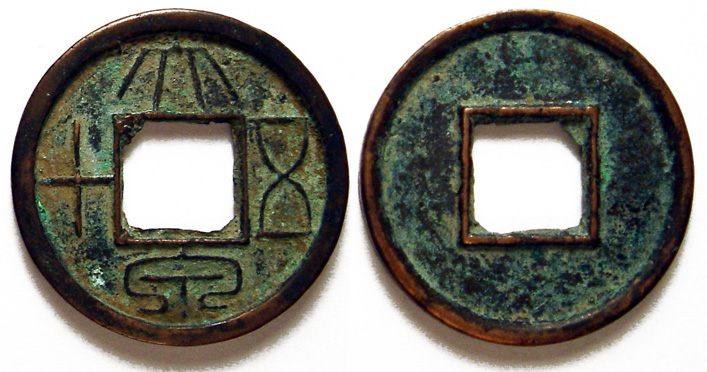 Obverse and reverse of a Da Quan Wu Shi coin issued by Wang Mang.